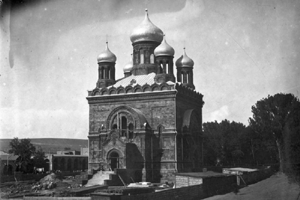 Saint Nikolai Cathedral in Yerevan